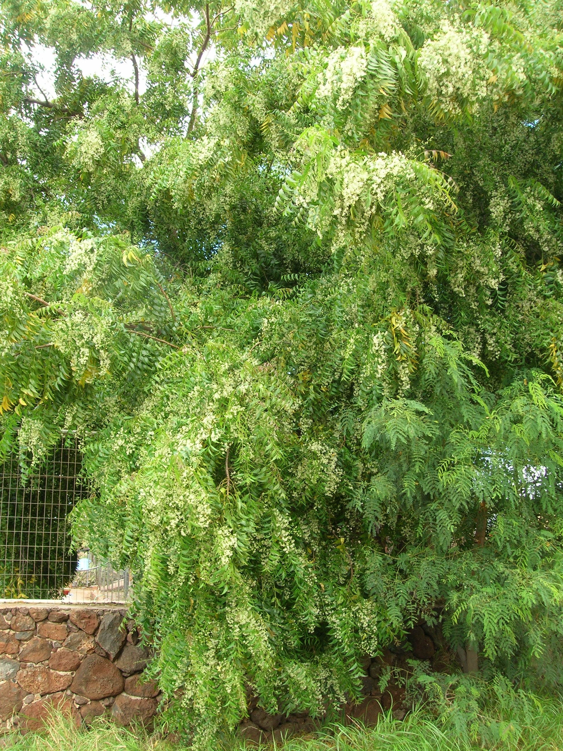 Azadirachta indica (habit). Location: Molokai, Kaunakakai